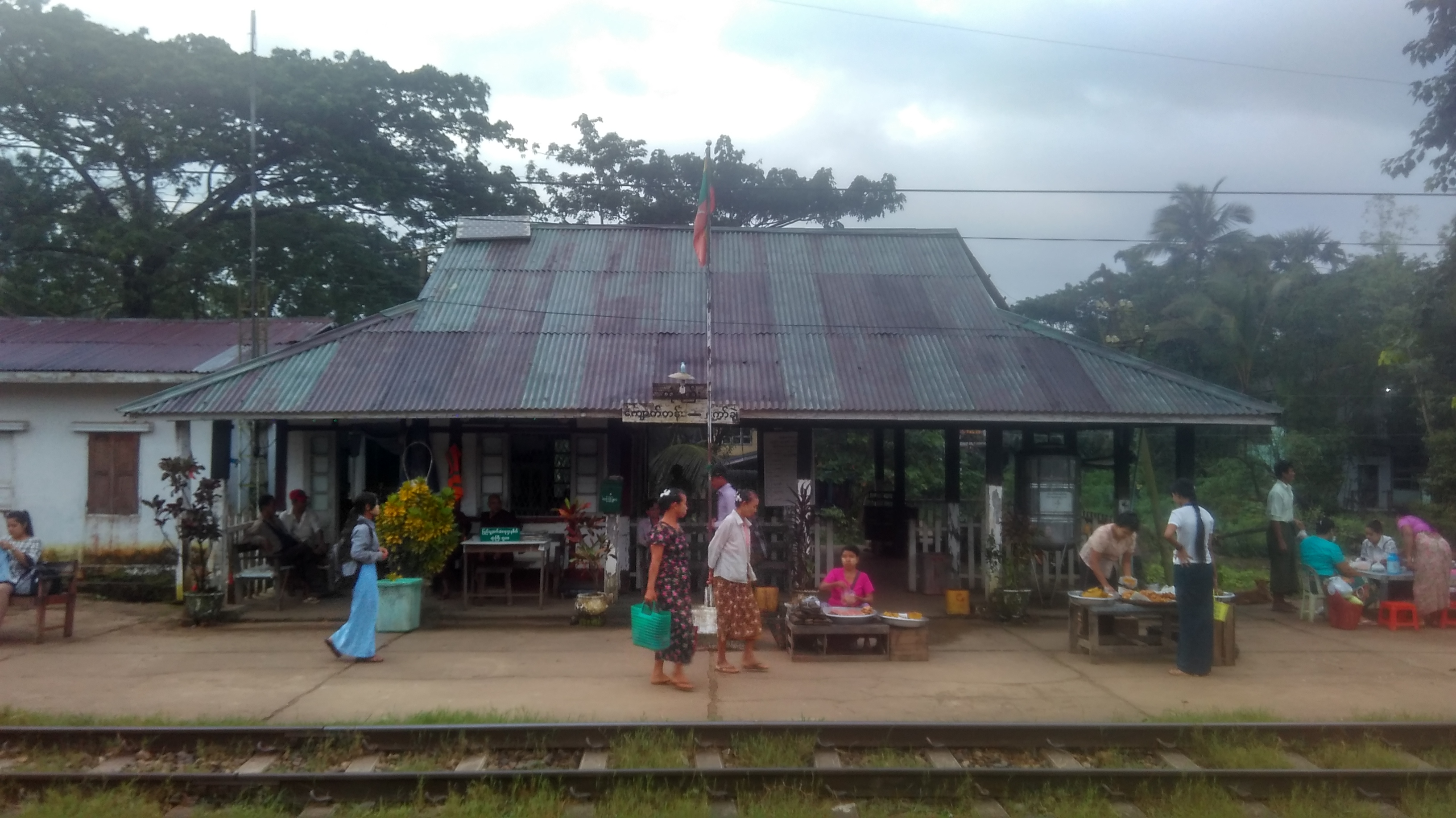 Htone Kyee Railway Station မြန်မာဘာသာ: ထုံးကြီးဘူတာ။ ပဲခူးတိုင်းဒေသကြီး၊ ပဲခူးမြို့နယ်၊ ထုံးကြီးရွာတွင် တည်ရှိသည်။